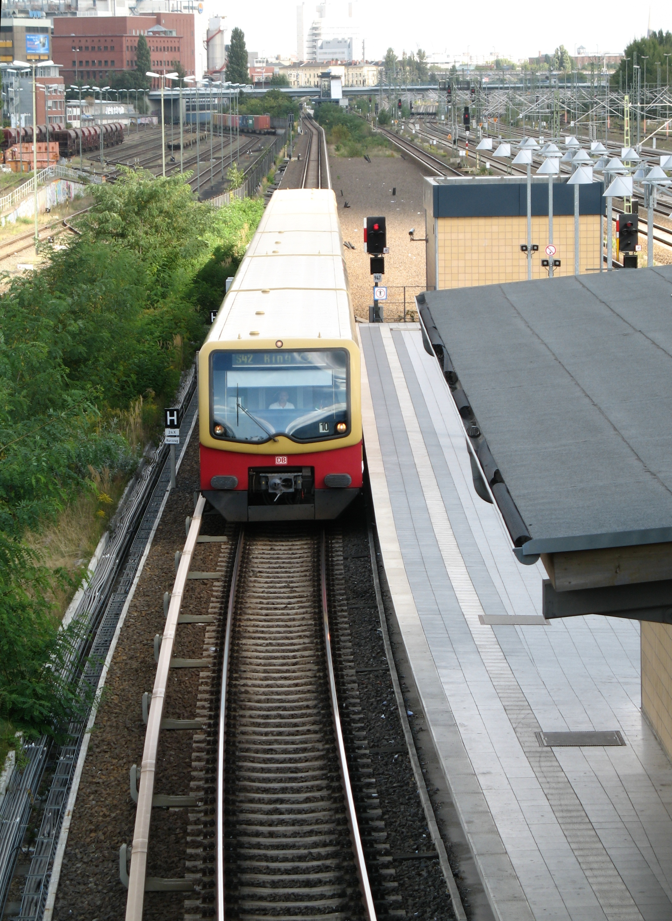 Commuter train (S-Bahn) entering station Berlin-Beusselstrasse